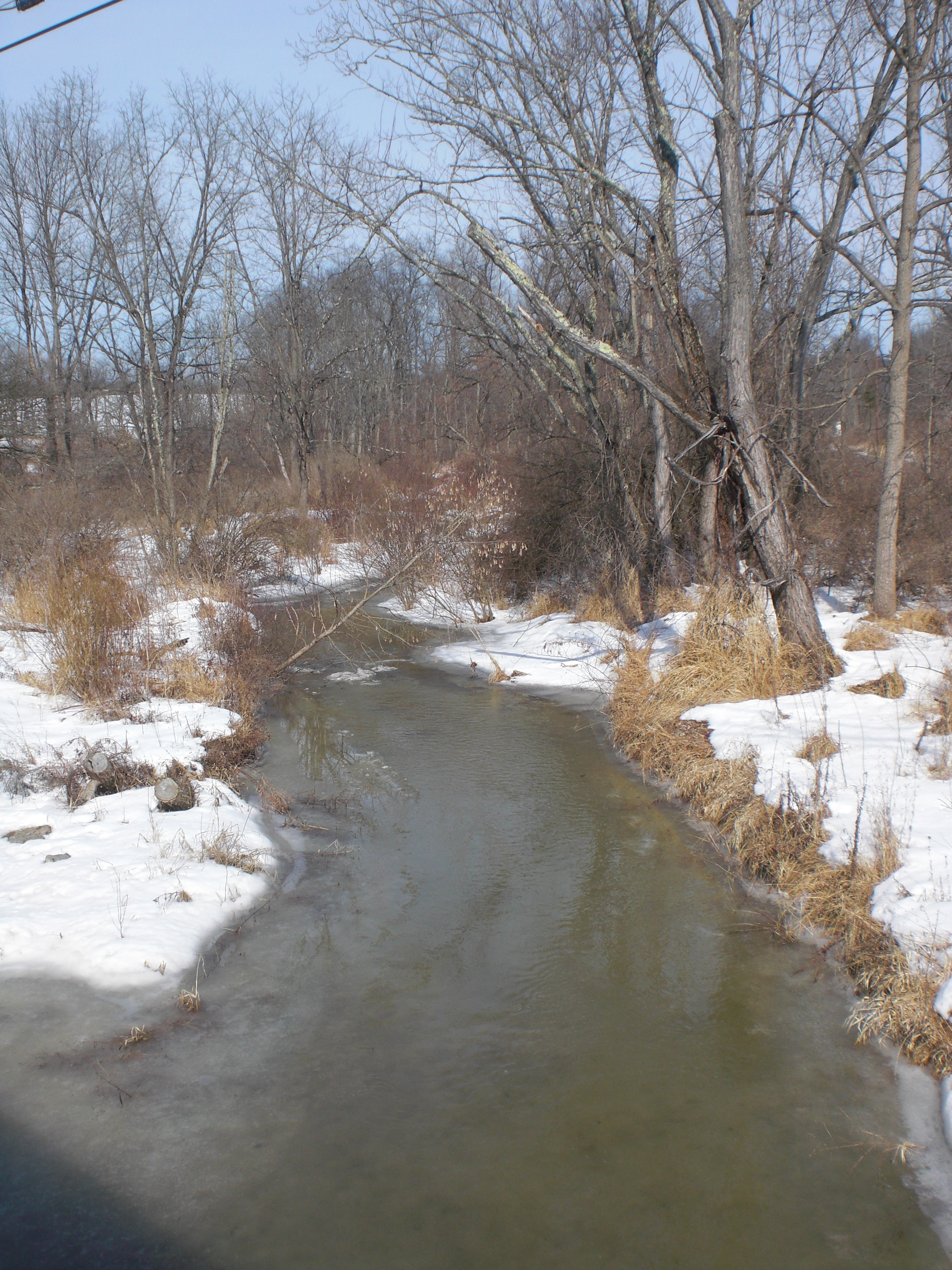 East Branch Chillisquaue Creek looking upstream in Madison Township, Columbia County.